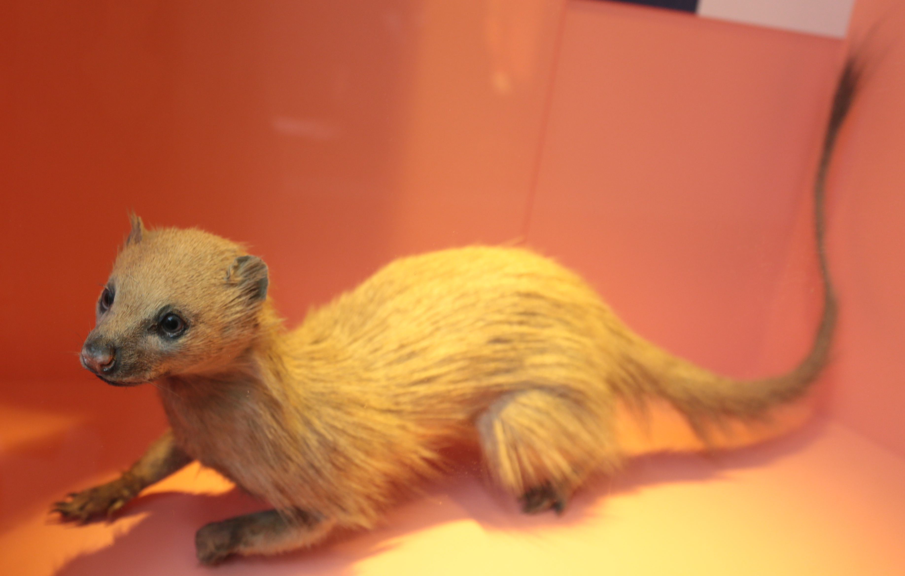 Egyptian mongoose (Herpestes ichneumon), Natural History Museum, London, Mammals Gallery